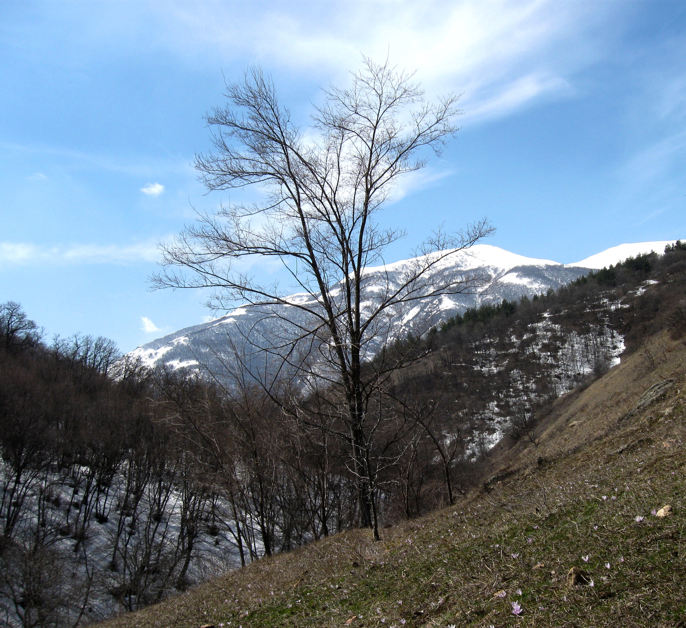 Forests of Armenia, Kotayk Province, Aghveran